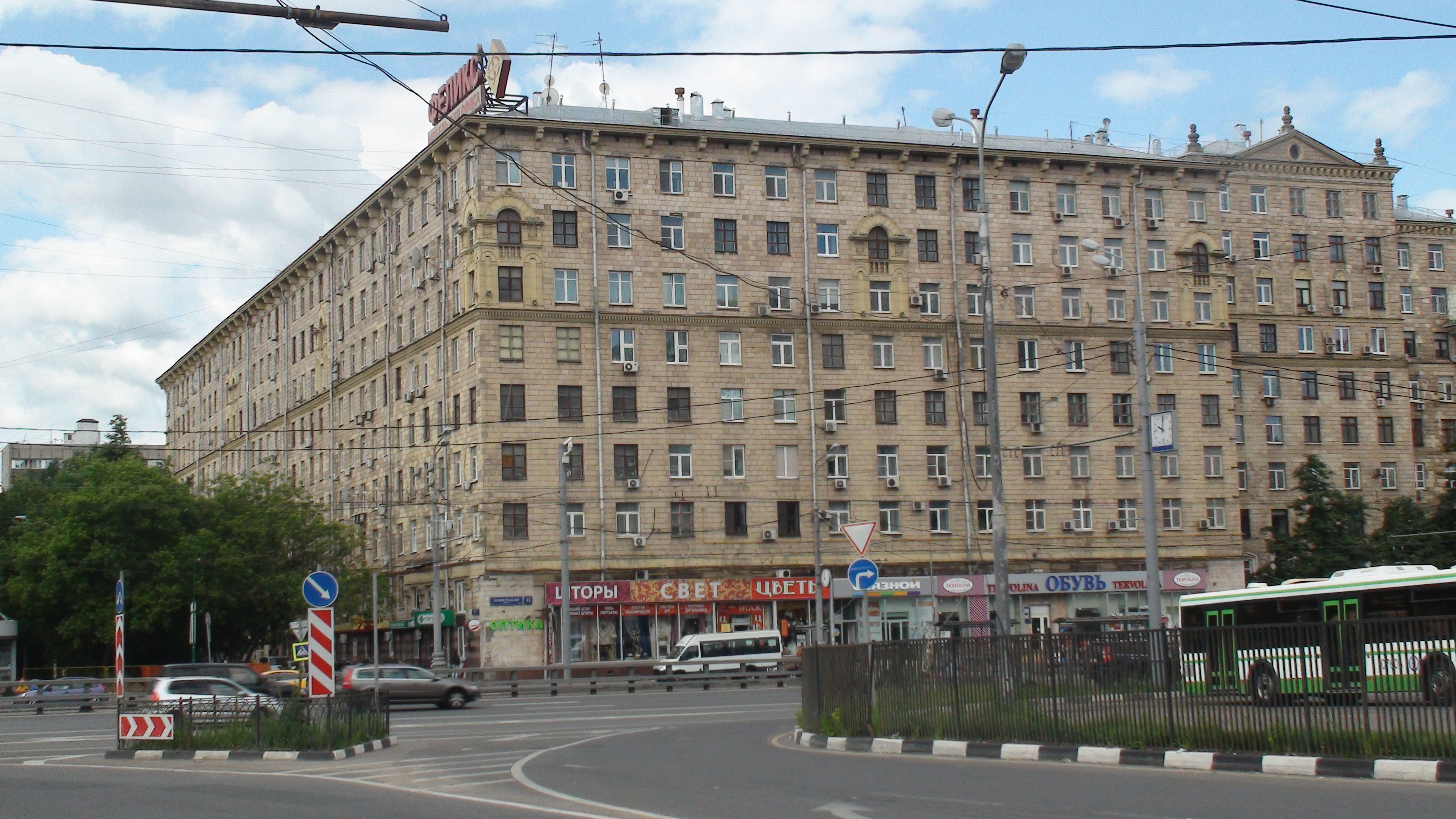 3-й Войковский проезд